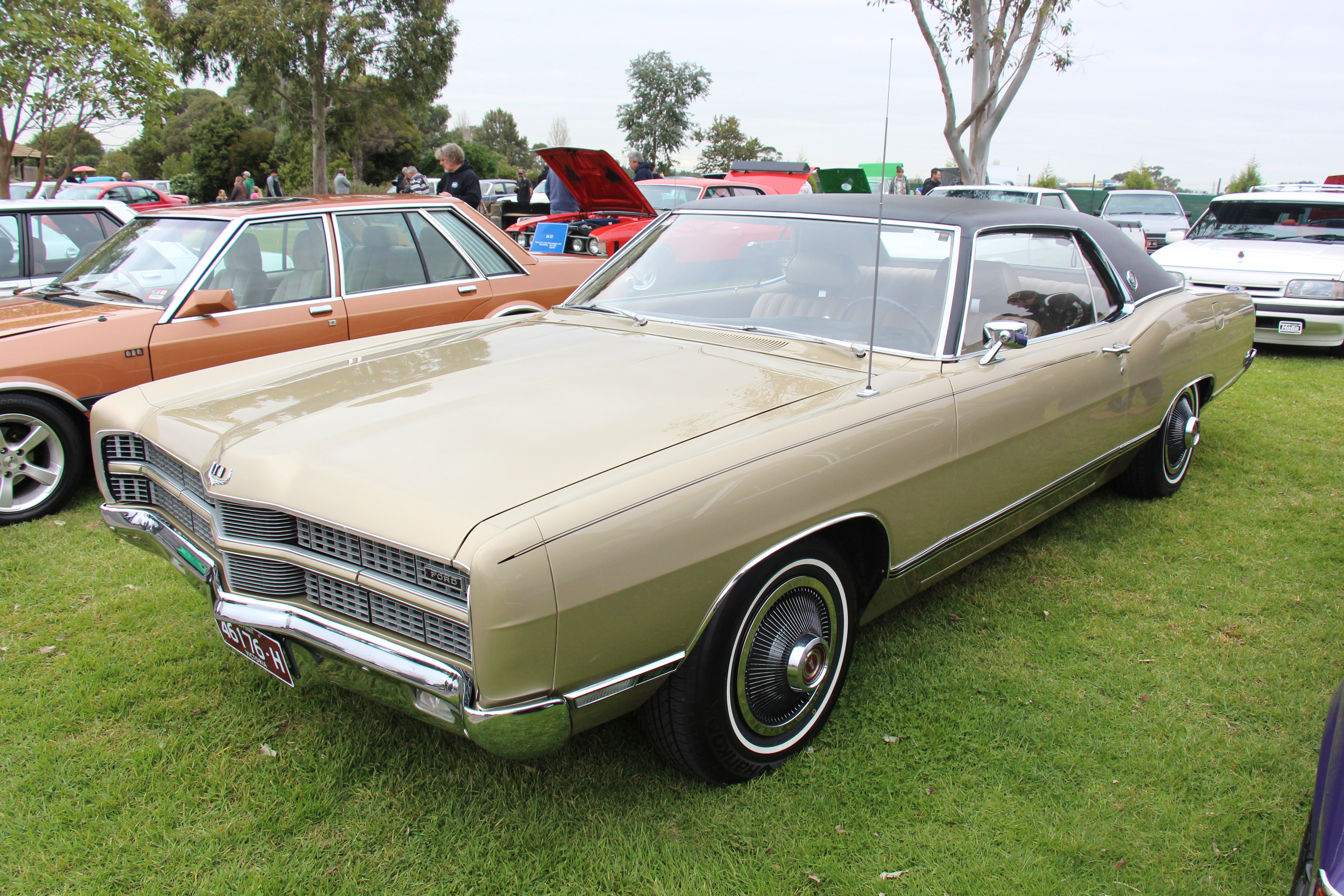 The 1969-74 4th generation Ford Galaxie was built on a new 121 inch platform, the dashboard now wrapped around the driver. Models for 1969 were the Galaxie XL, Galaxie XL 500 and LTD. The hidden headlights and formal roofline introduced on the LTD in 1968 were retained, but it did get a new split grille with a horizontal centre divider A very minor facelift for 1970 but a completely new look for 71 1972 were similar but the lower bumper continued across the centre grille section. The 1973 model was marginally shorter than previous models, but had a heavier, bulker appearance, 74 cars were very similar. Engines; The new 429 replaced the old 427 and 428, also available were the 302 and 351 V8s